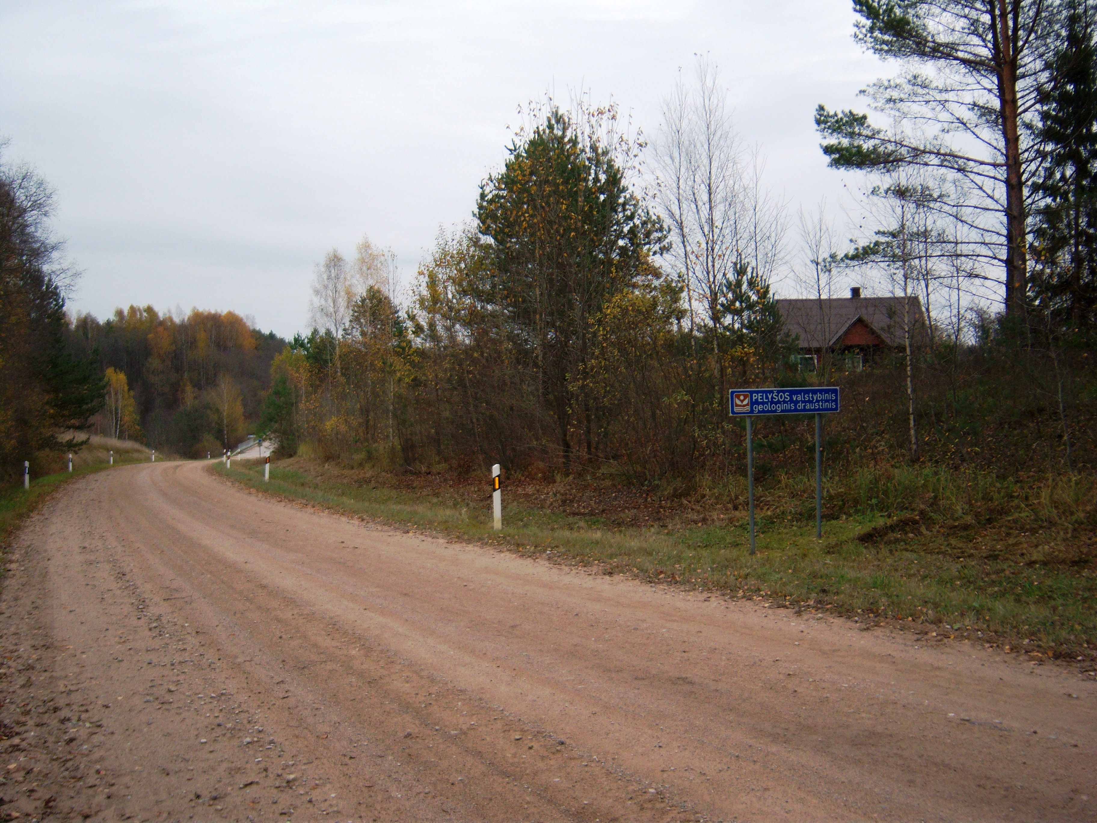 Pelyša geological reserve, Anykščiai District, Lithuania